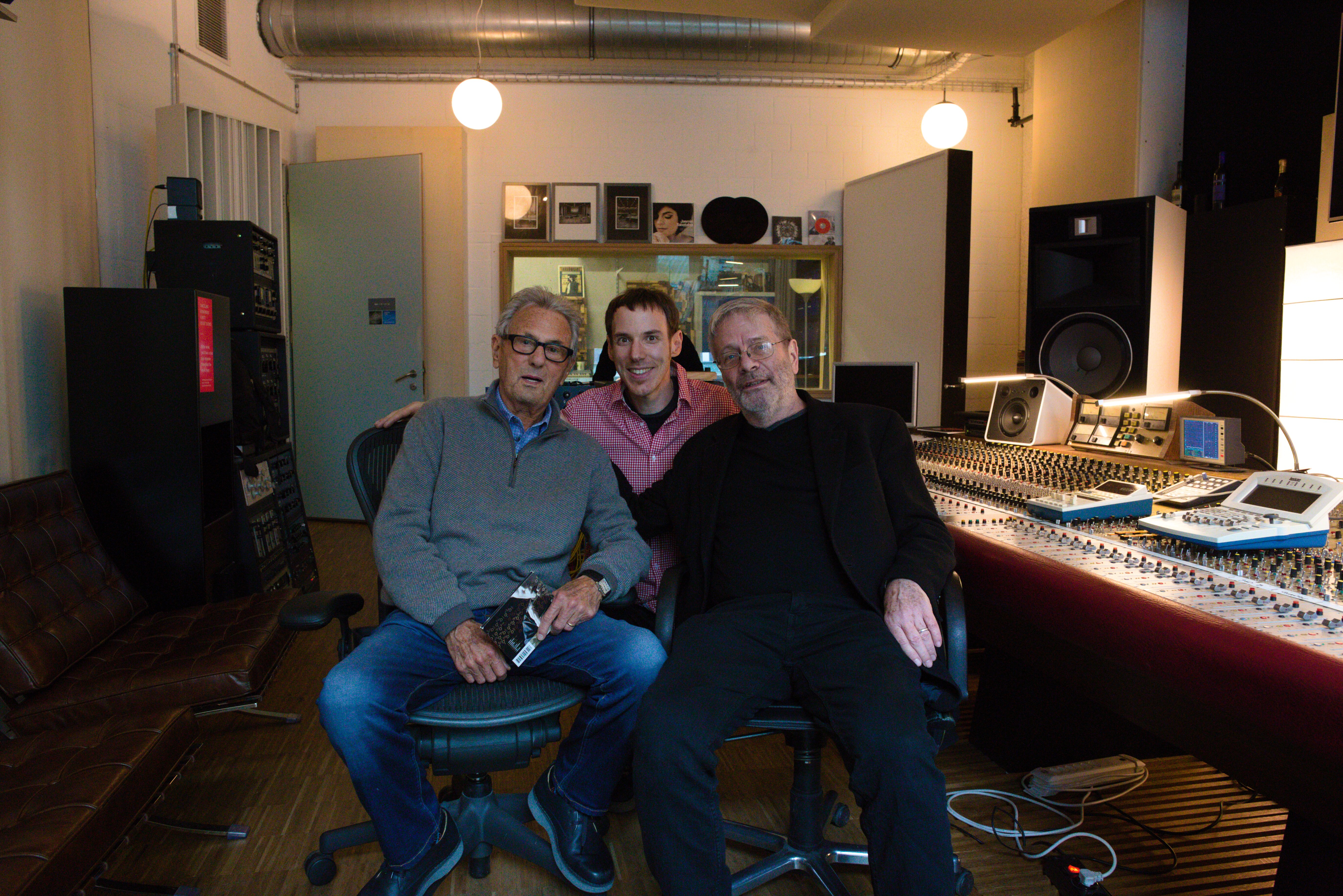 In Idee und Klang studio